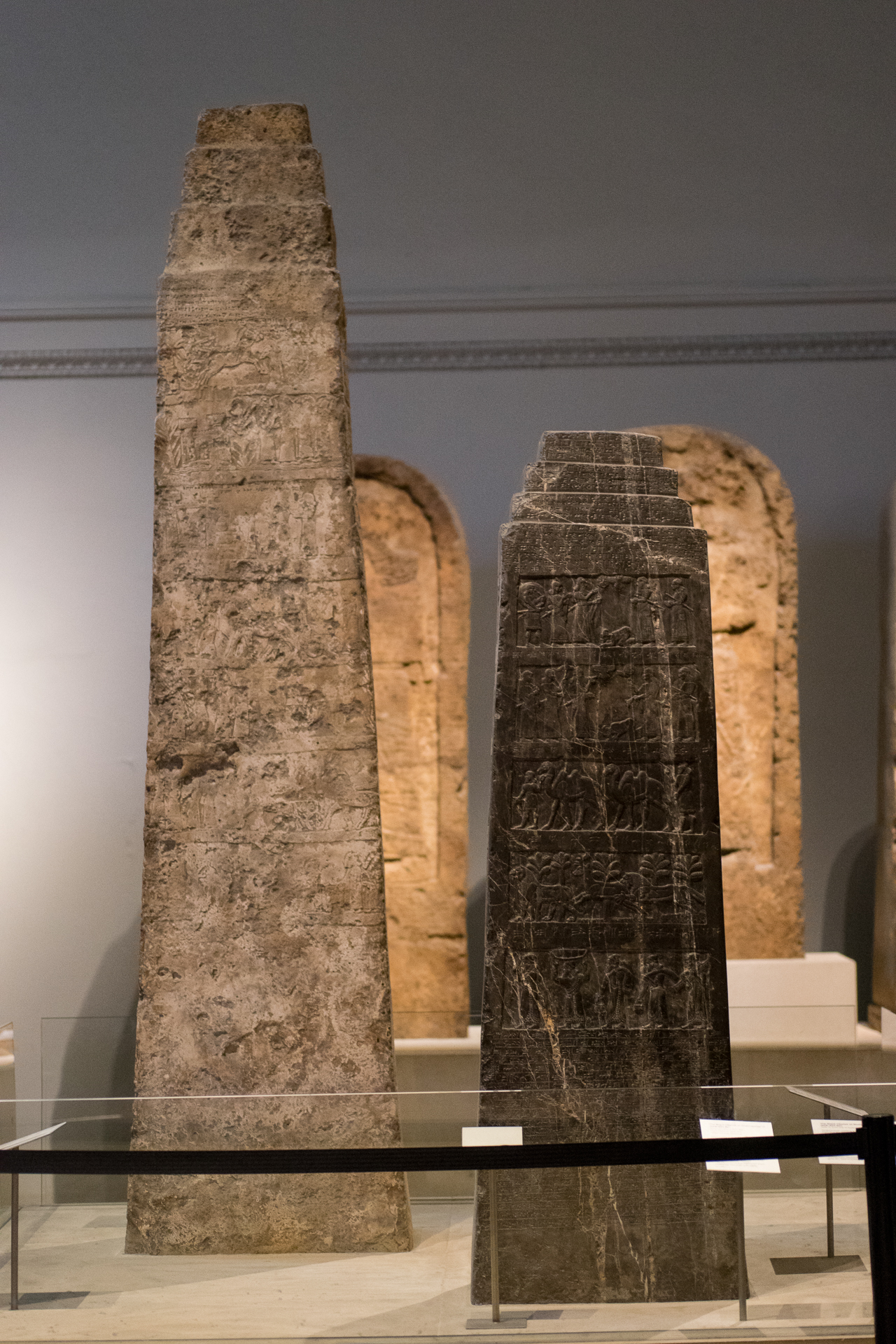 British Museum - Room 6